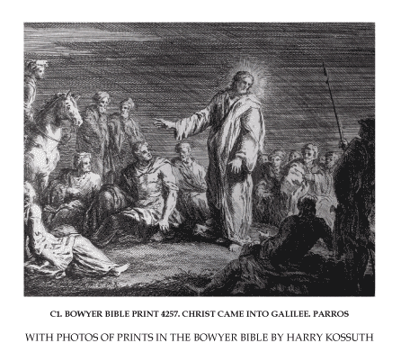 Christ came into Galilee. Parros. In the Bowyer Bible in Bolton Museum, England. Print 4257. From “An Illustrated Commentary on the Gospel of Mark” by Phillip Medhurst. Section C. Jesus goes public. Mark 1:14-20.